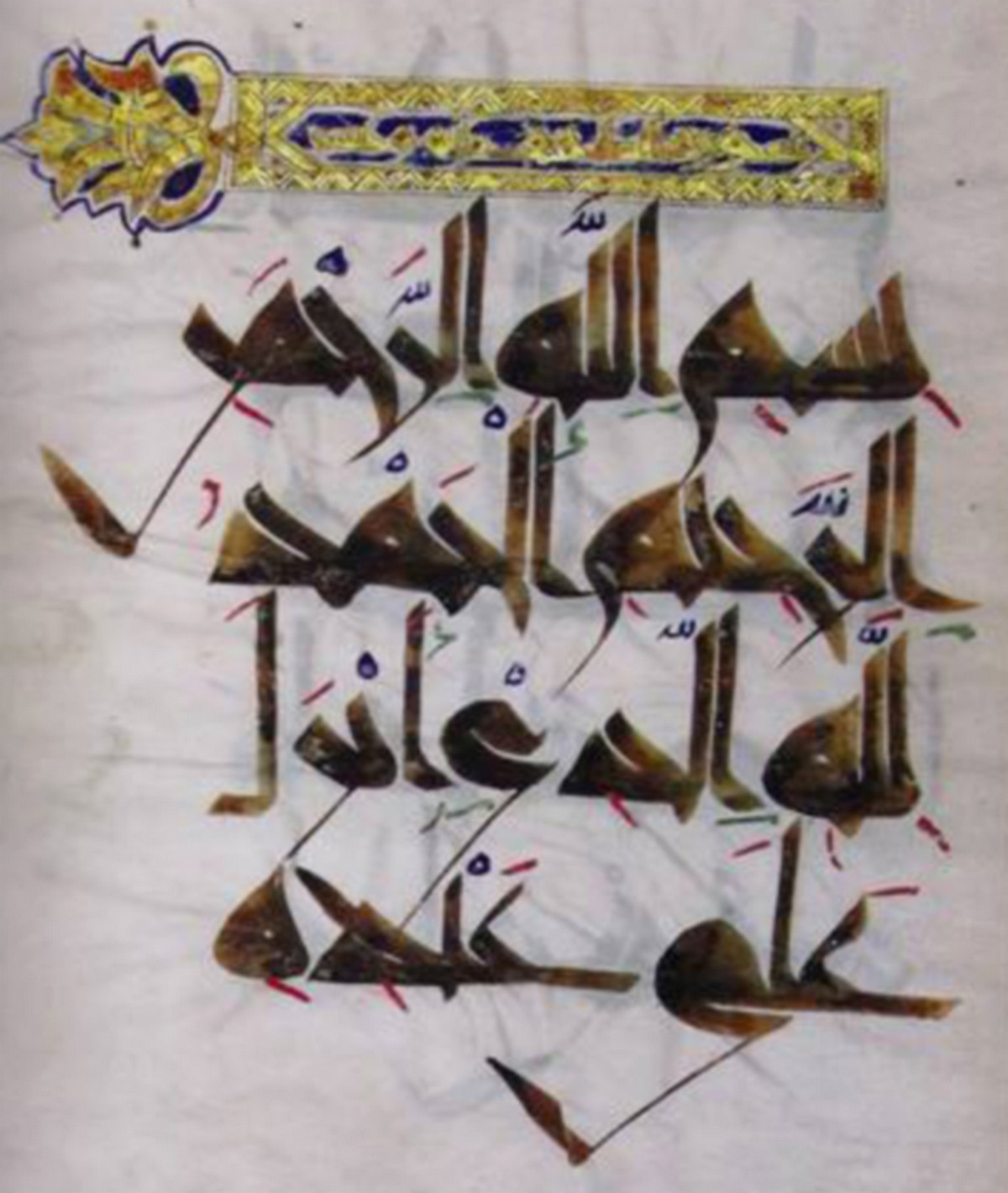 Paper of a Qur'an from the Sanhaji era (5th century of Hegira), Tunisia (Kairouani style)